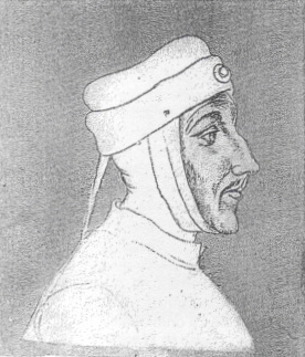 Louis II of Flanders (1330-1384)